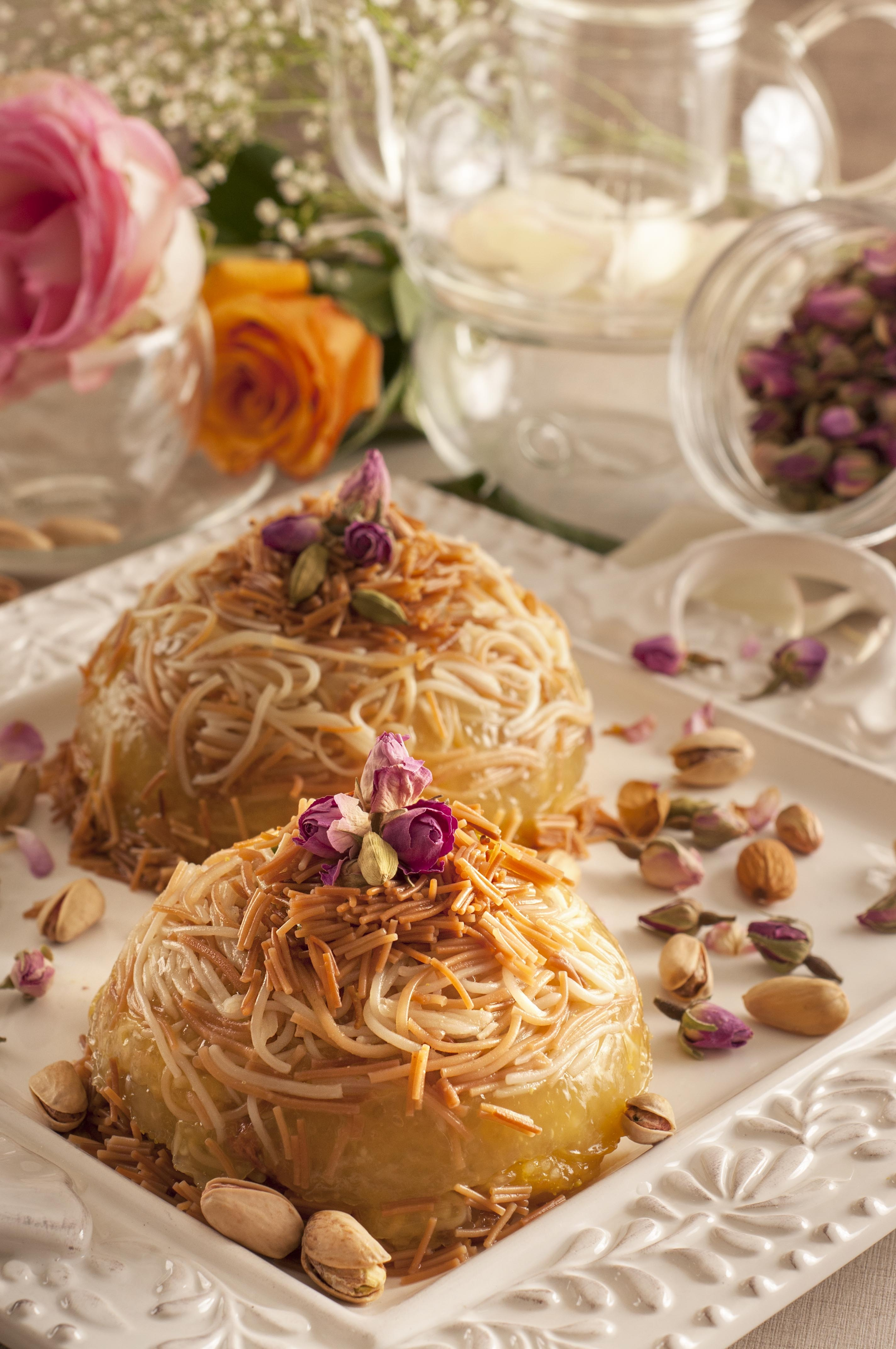 Pasta Balaleet Sago Sweet Flowers Rose Pistatio